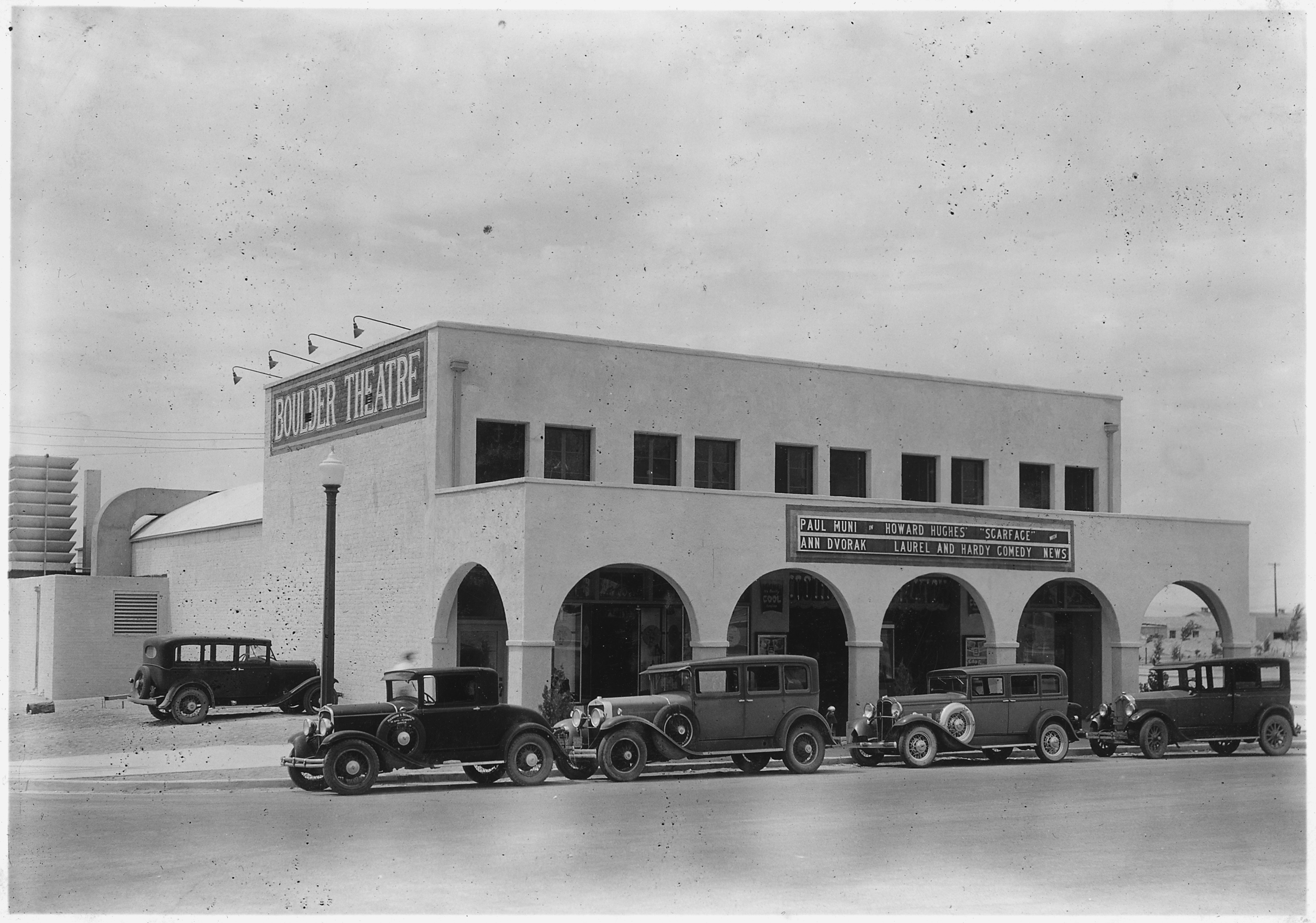 Scope and content: Photograph from Volume Two of a series of photo albums documenting the construction of Hoover Dam, Boulder City, Nevada.